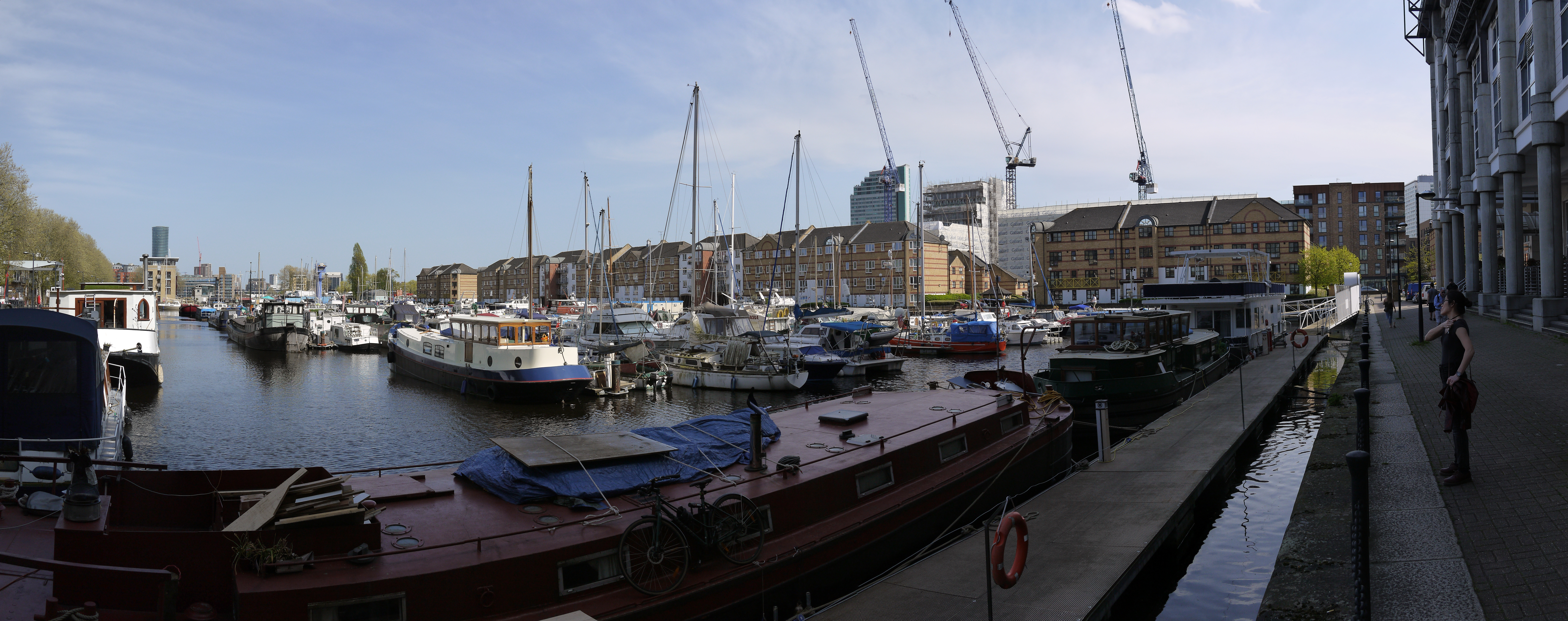 Panorama of Greenland Dock Marina